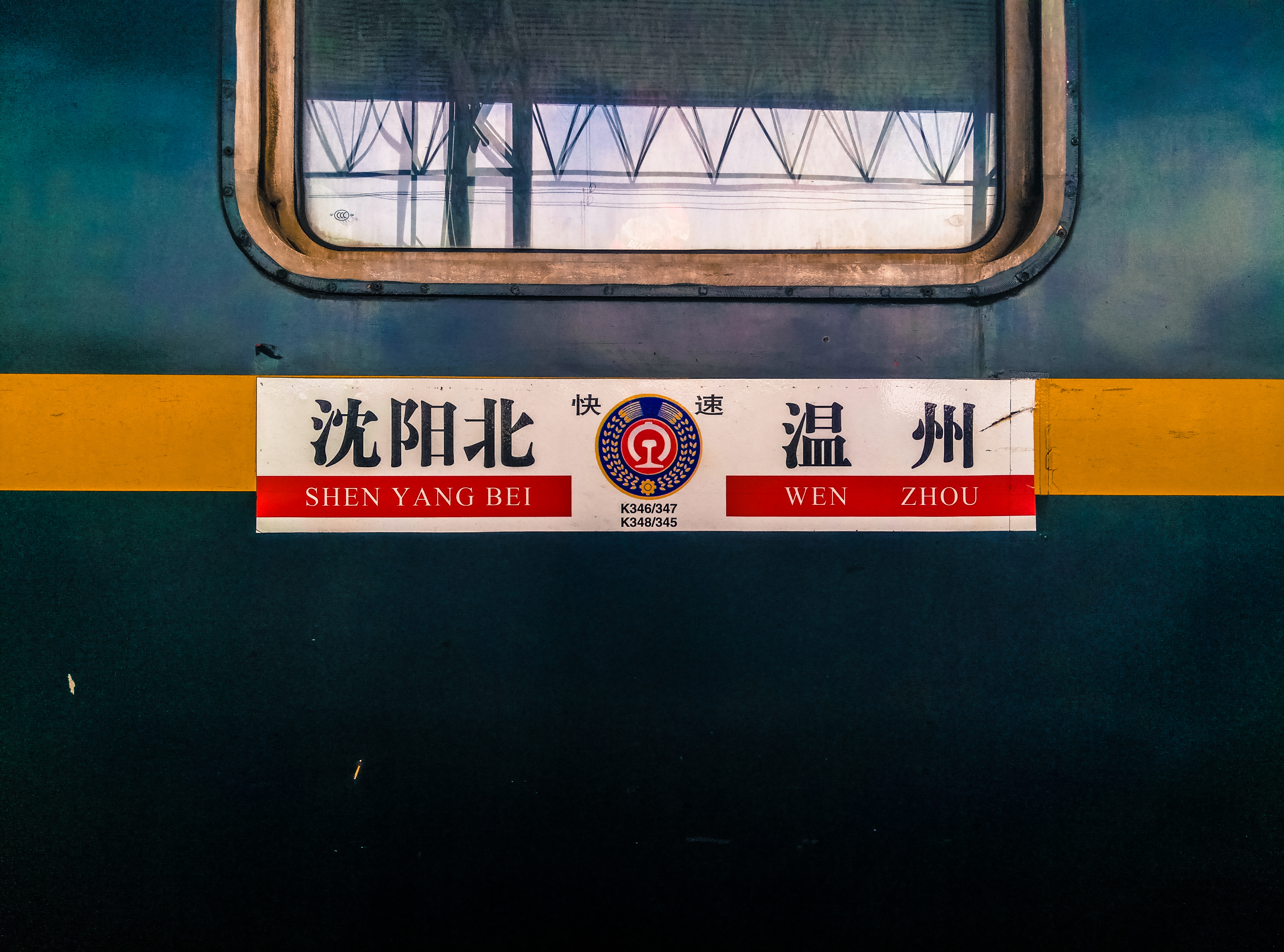 K348 7 6 5 Information Board